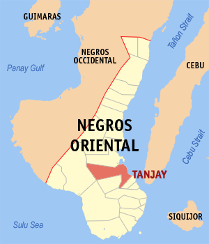 Map of Negros Oriental showing the location of Tanjay